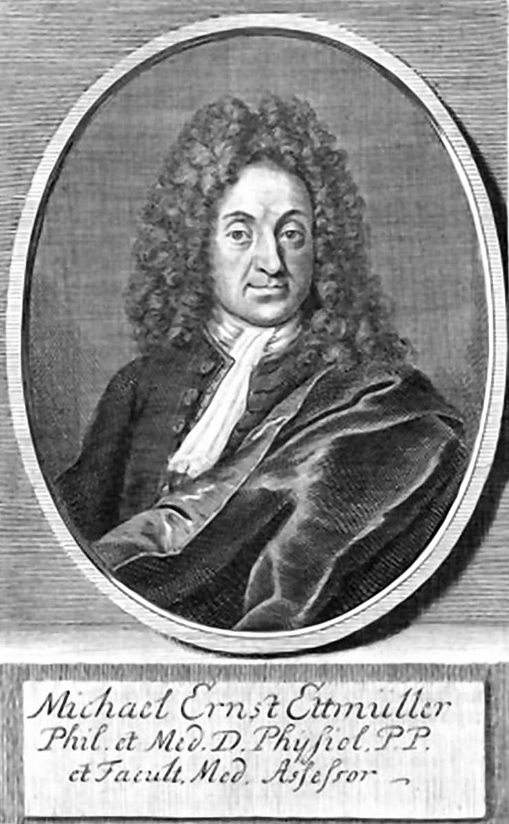 Michael Ernst Ettmüller (1673-1732) Physician from Germany